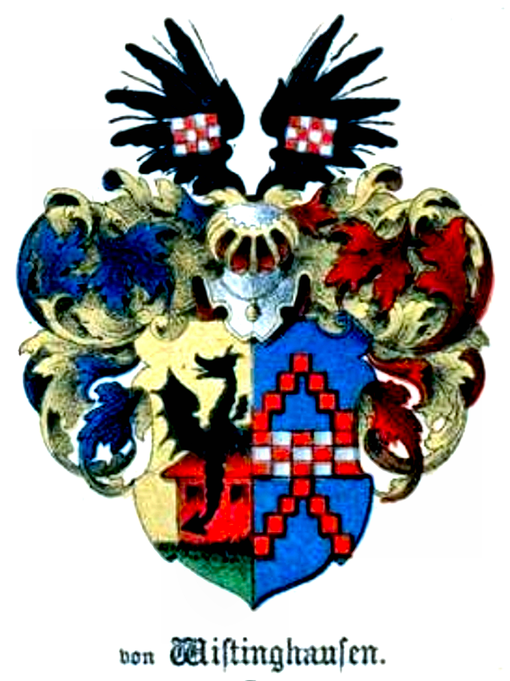 Coat of arms of Wistinghausen family